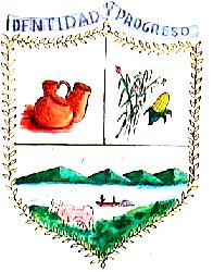 Army